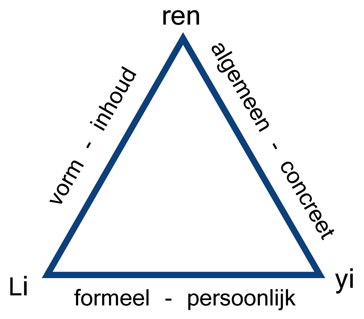 relations between confucian virtues Li, Yi and Ren (in Dutch)